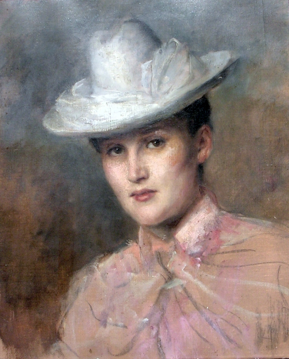 portrait of Anna Wandschneider, geb. Kreß (wife of sculptor Wilhelm Wandschneider, painted by Fritz Greve